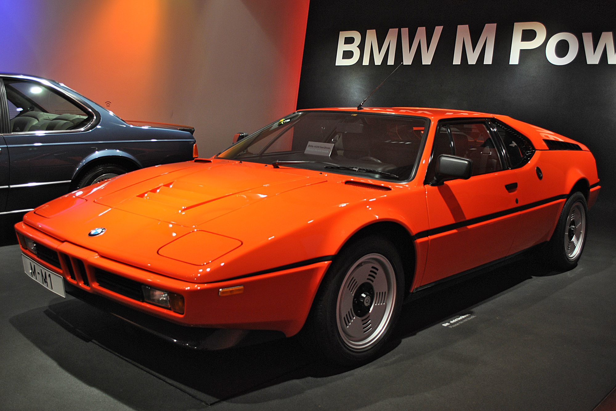 BMW M1 at BMW Museum Munich